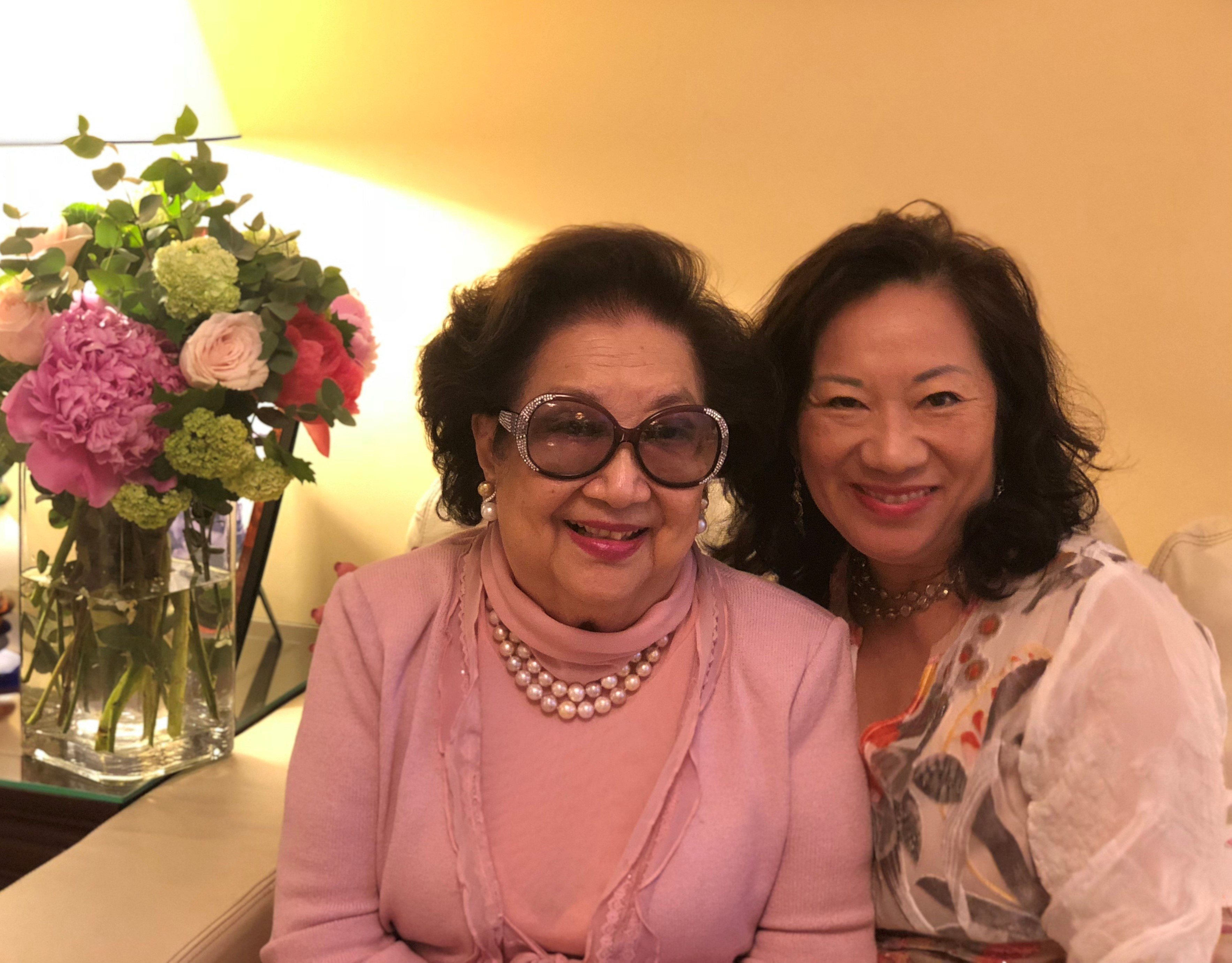 Isabel Sun Chao (left) and Claire Chao, co-authors of Remembering Shanghai. Nov 2018.